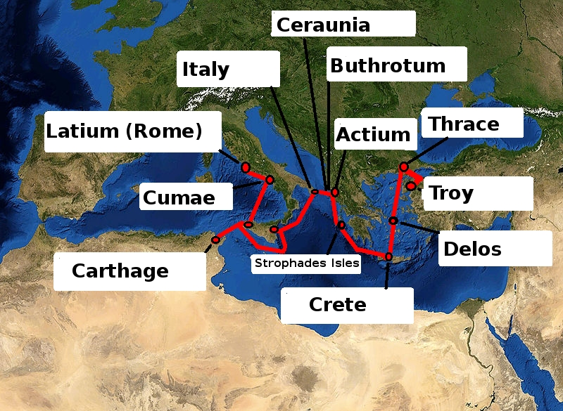 Satellite caption of the Mediterranean Sea. The route of the fictional hero Aeneas in the epic poem The Aeneid is shown, with key towns and islands, as he traveled from Troy, southwards and westwards, to Carthage and then to Rome.